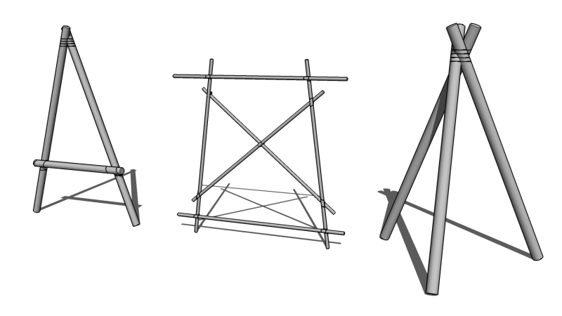 Drawn by [